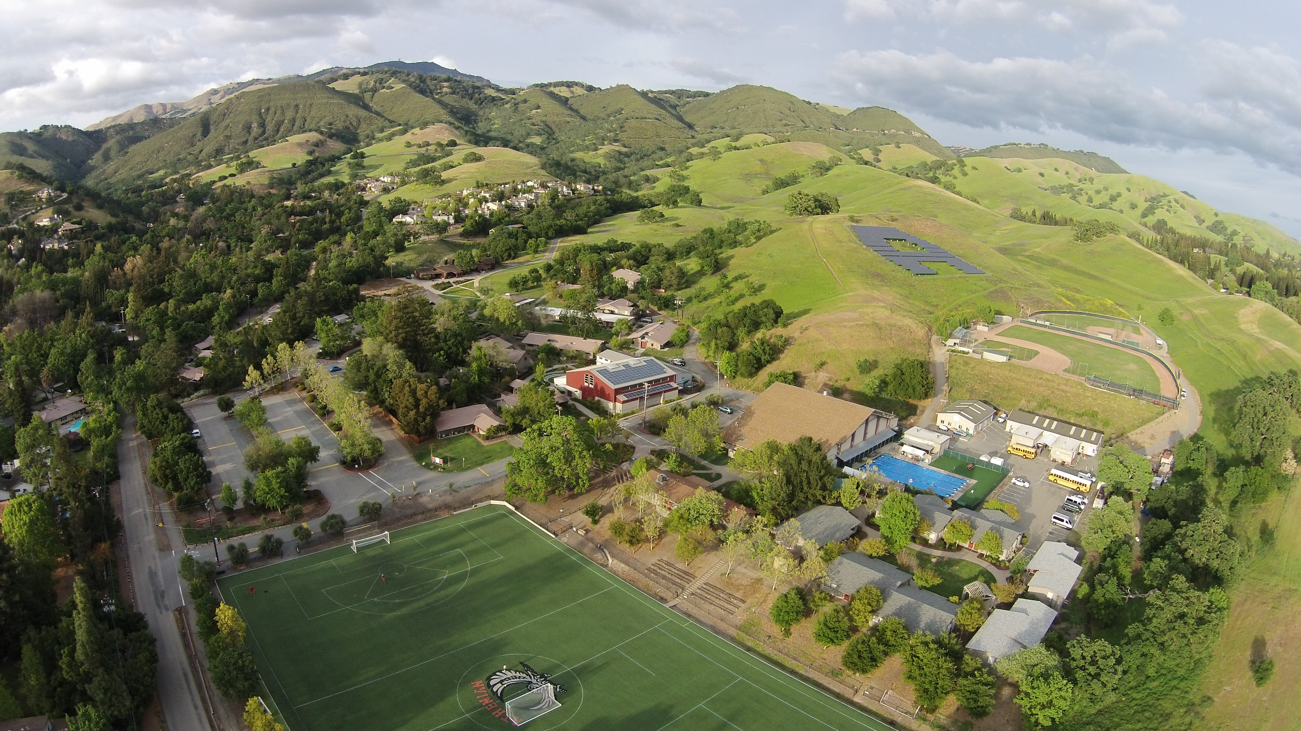 Aerial View of Athenian School